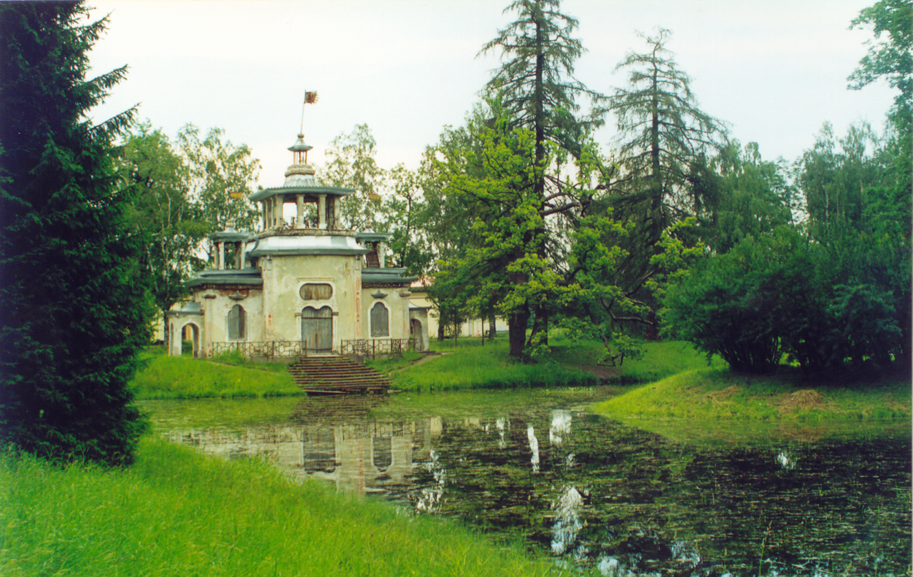 Creaking Pagoda in the Catherine Park of Tsarskoe Selo